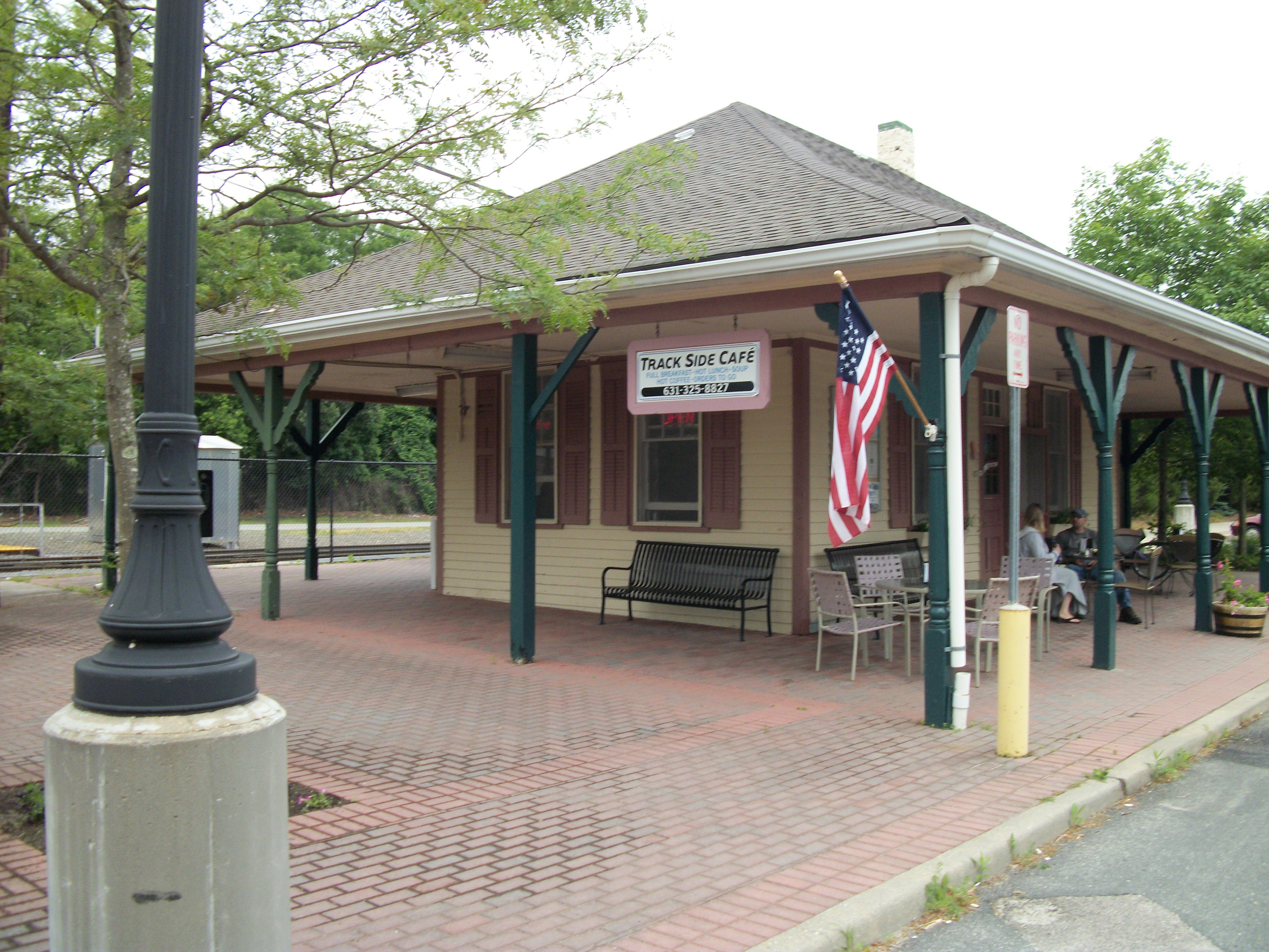 The Speonk Trackside Cafe, which operates out of the former station house of Speonk (LIRR station), across the street from the current station which is nothing more than a high-level sheltered platform. An LIRR kiosk and bicycle rack also exist here, as well as the original parking lot, which tells me that the railroad still finds this place valuable. The LIRR Speonk Yard begins on this side of the station.